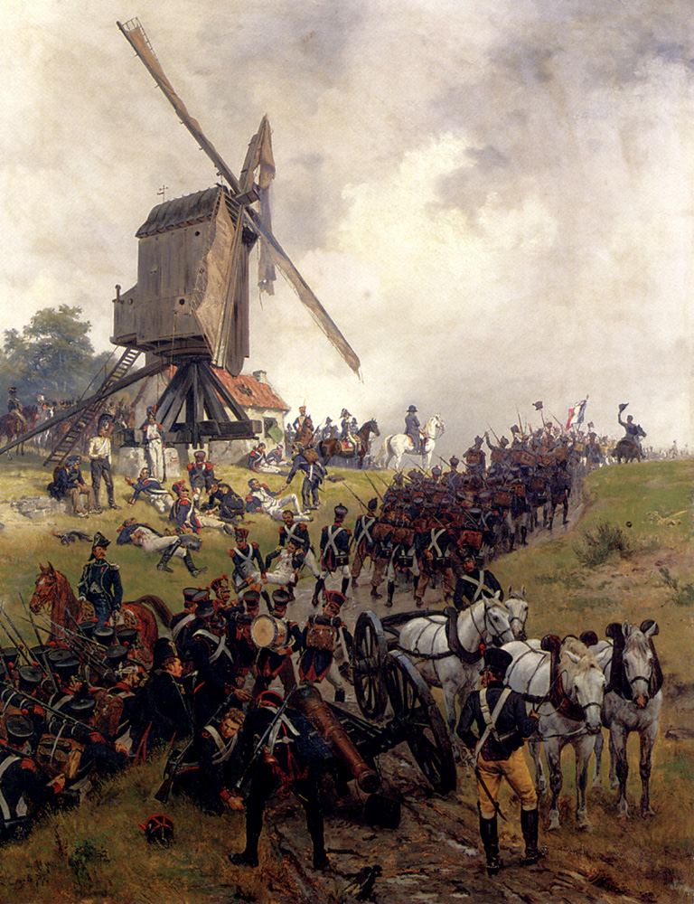 Ligny This is a representation of the Battle of Ligny in 1815, showing Napoleon surrounded by his staff surveying the battlefield while columns of infantry advance to the front. The windmill is probably that on the heights of Naveau, which served as Napoleon's command post during the battle. This painting by Ernest Crofts was to be the first of no fewer than twelve shown at the Royal Academy by the artist between 1875 and 1906 representing the events surrounding the Waterloo campaign, the one exception being his 1887 rendition, Napoleon leaving Moscow.[1]